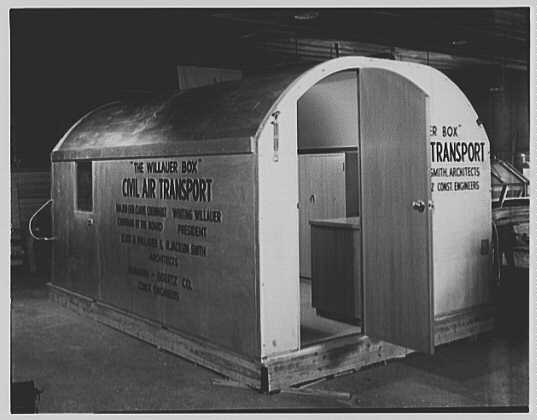 Title: Willauer box. Abstract/medium: Gottscho-Schleisner Collection (Library of Congress) Physical description: 1 negative